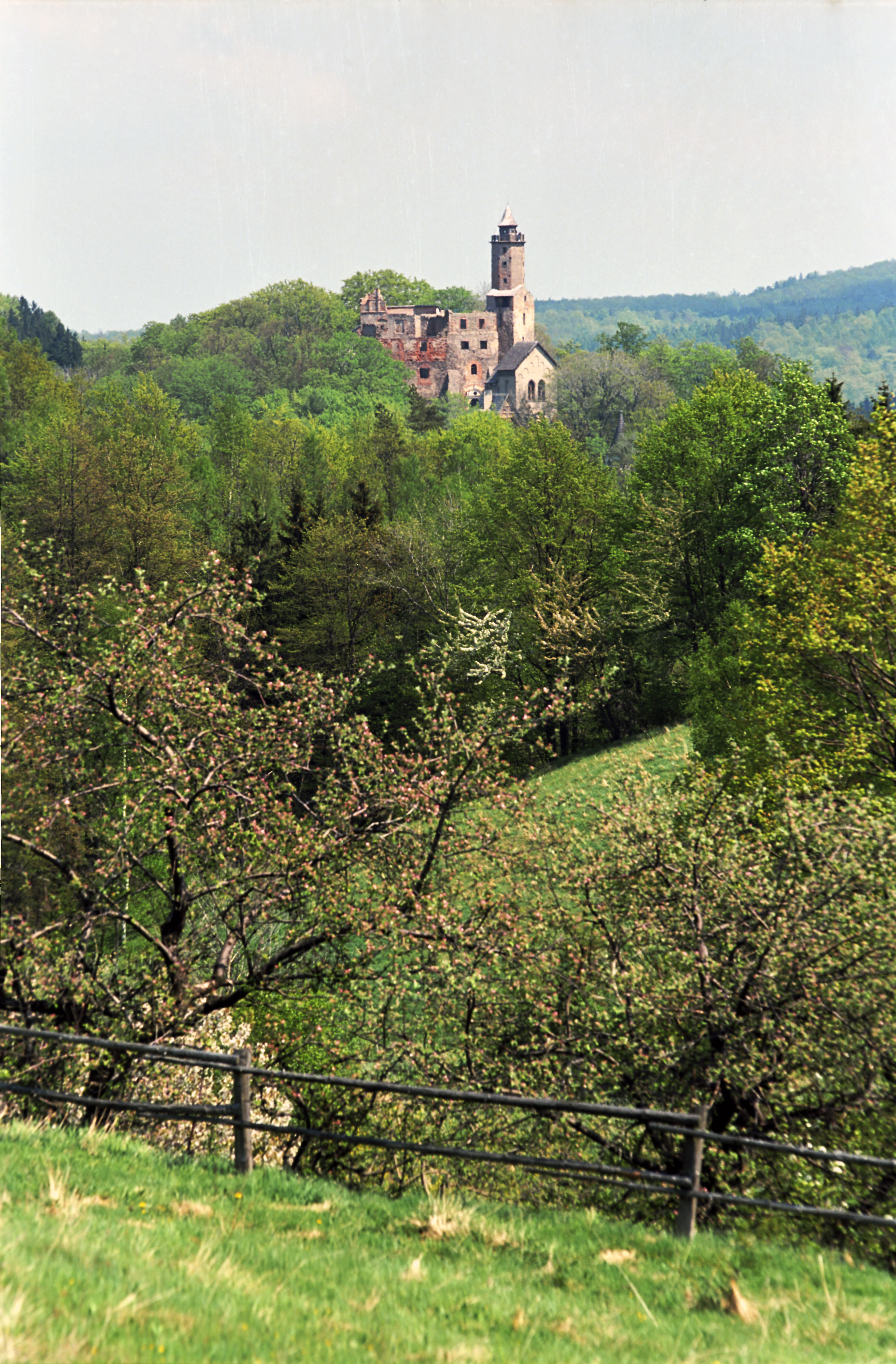 Poland, Chojna Castle